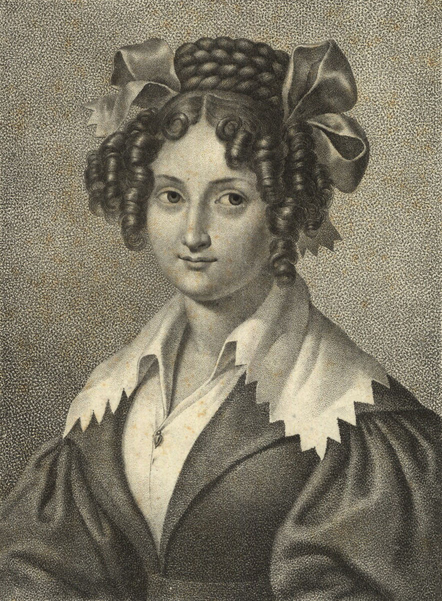 Klementyna Hoffmanowa (born Klementyna Tańska; 1798 – 1845), Polish popular literary writer, translator, editor, and one of Poland's first writers of children's literature. She co-organized and chaired the Patriotic Charity Association. She was the first woman in Poland to support herself from writing and teaching, and considered herself primarily a writer. Copperplate.